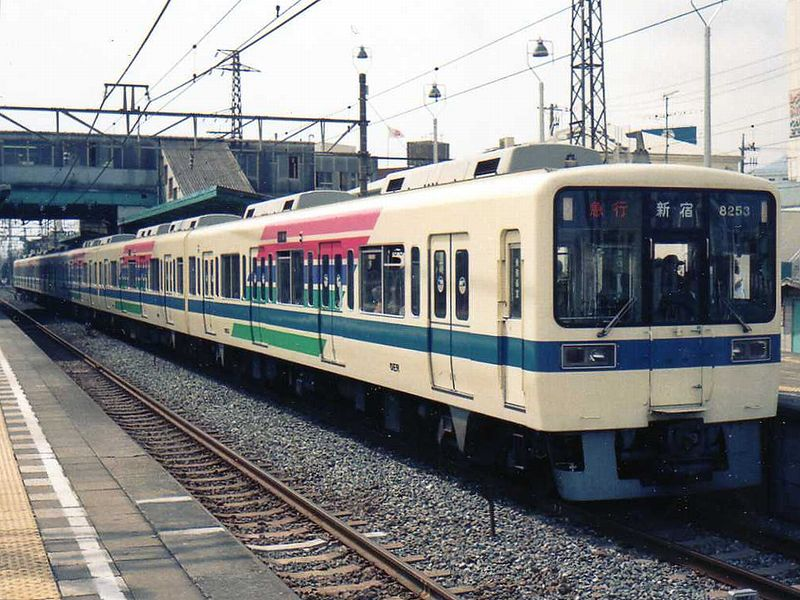 Odakyu Electric Railway Company, EMU Type 8000 "Flower Train" at Isehara Sta.